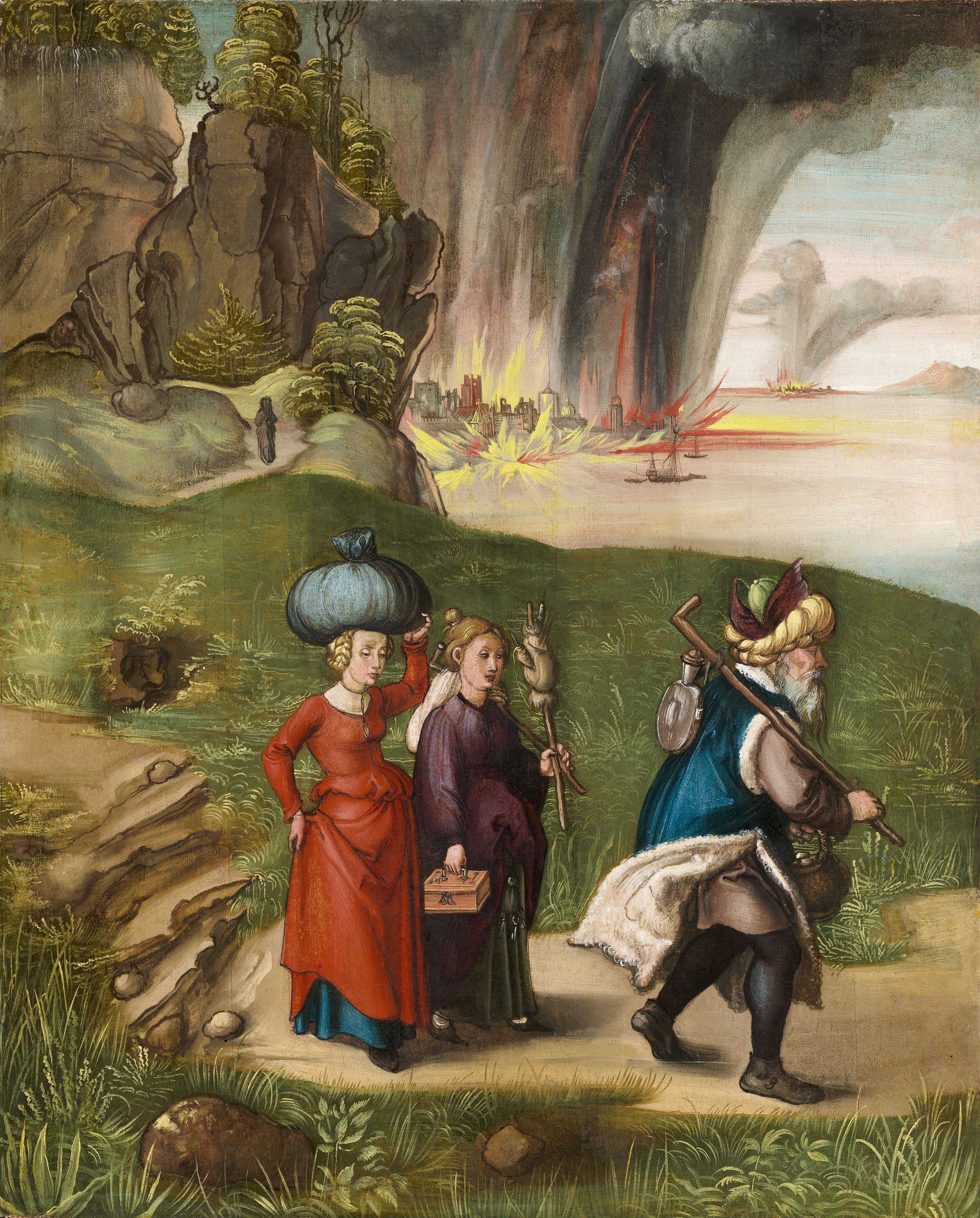 This scene is painted on the reverse side of Dürer's Madonna and Child